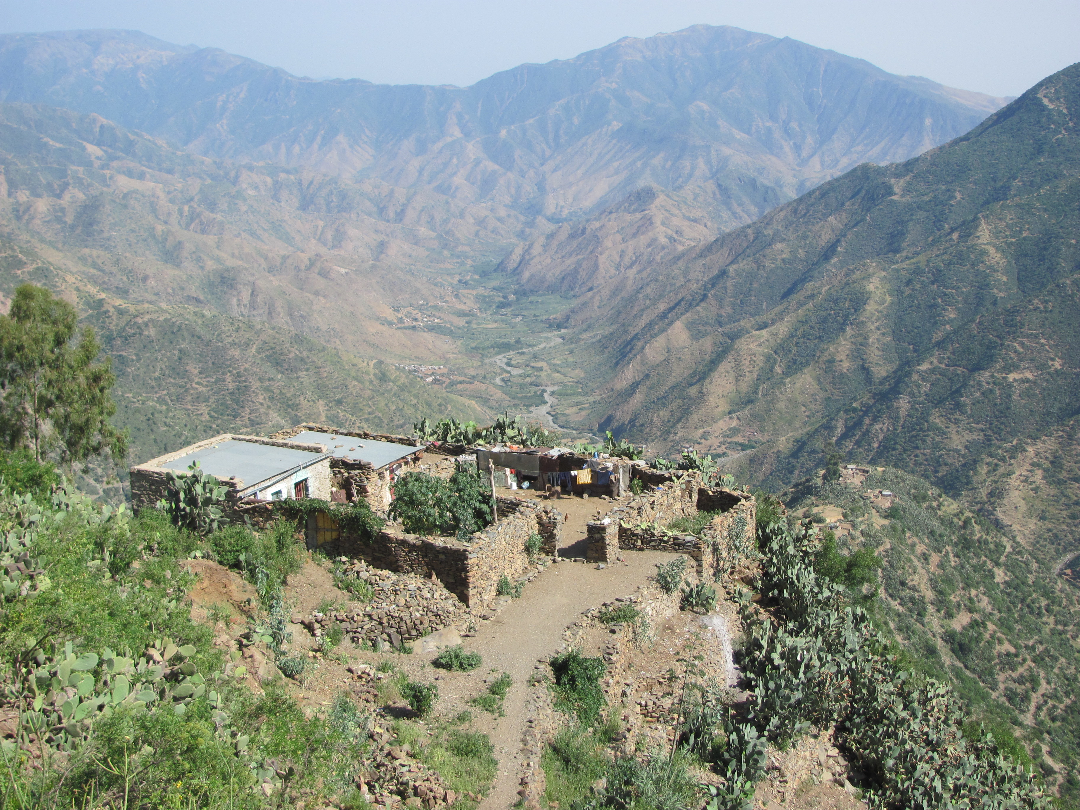 Mountain village between Asmara and Sherigini, Eritrea